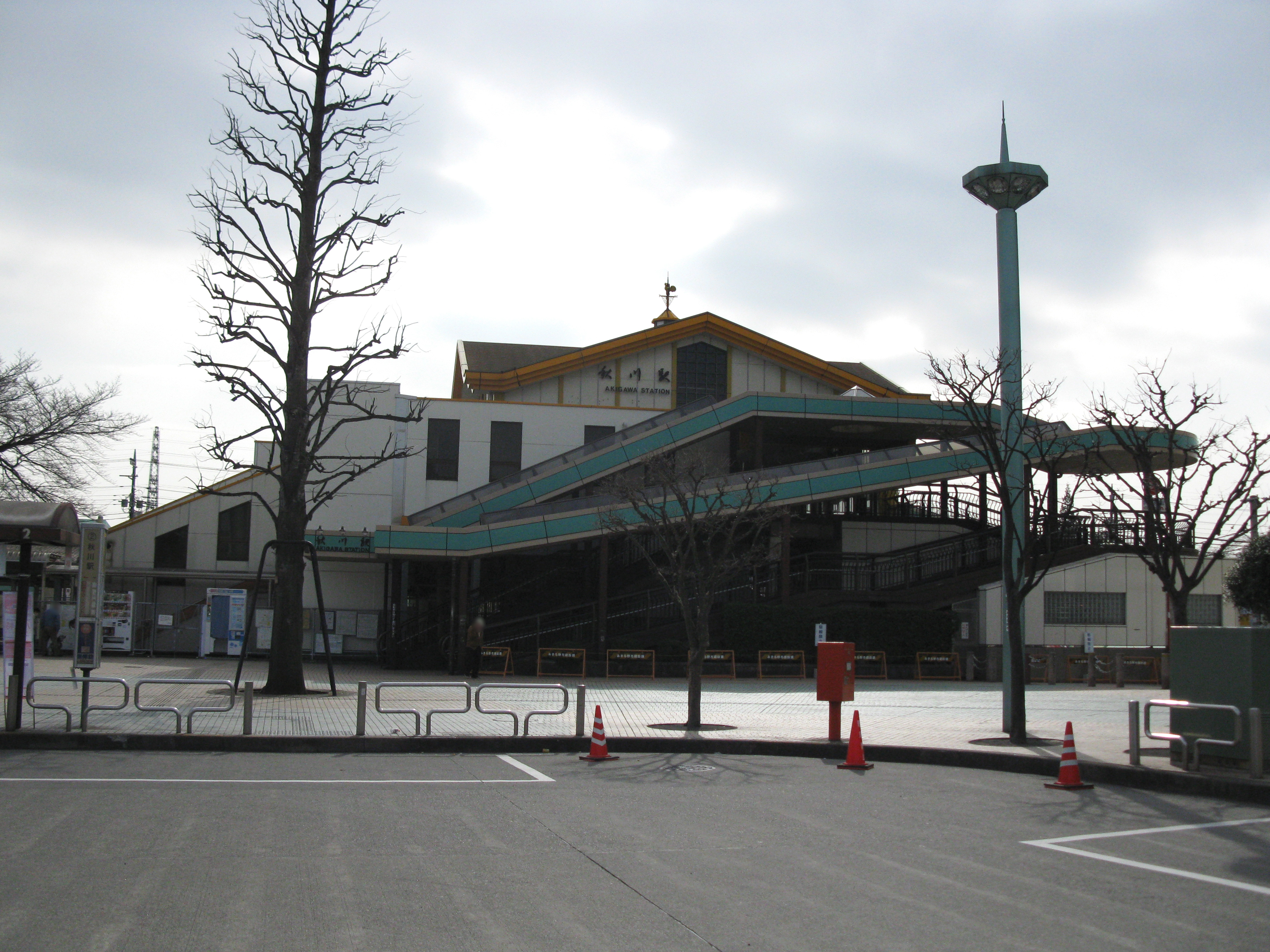 The north entrance of Akigawa Station on the Itsukaichi Line in Tokyo, Japan